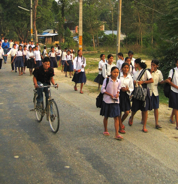 North India-16